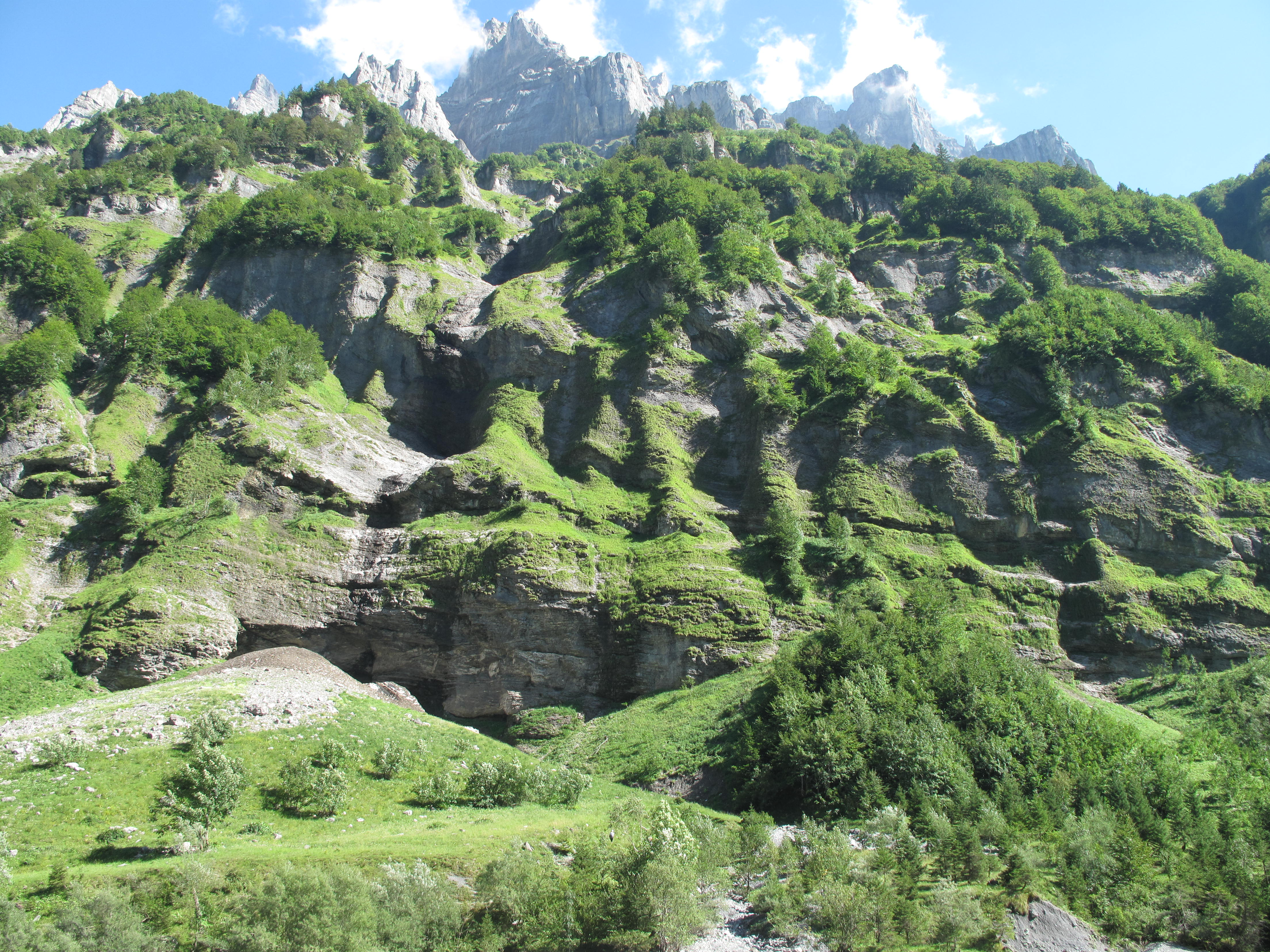 Eastern cliff of of Fond de la Combe (=bottom of the valley) on the way the cirque du Bout du Monde (Haute-Savoie, France).